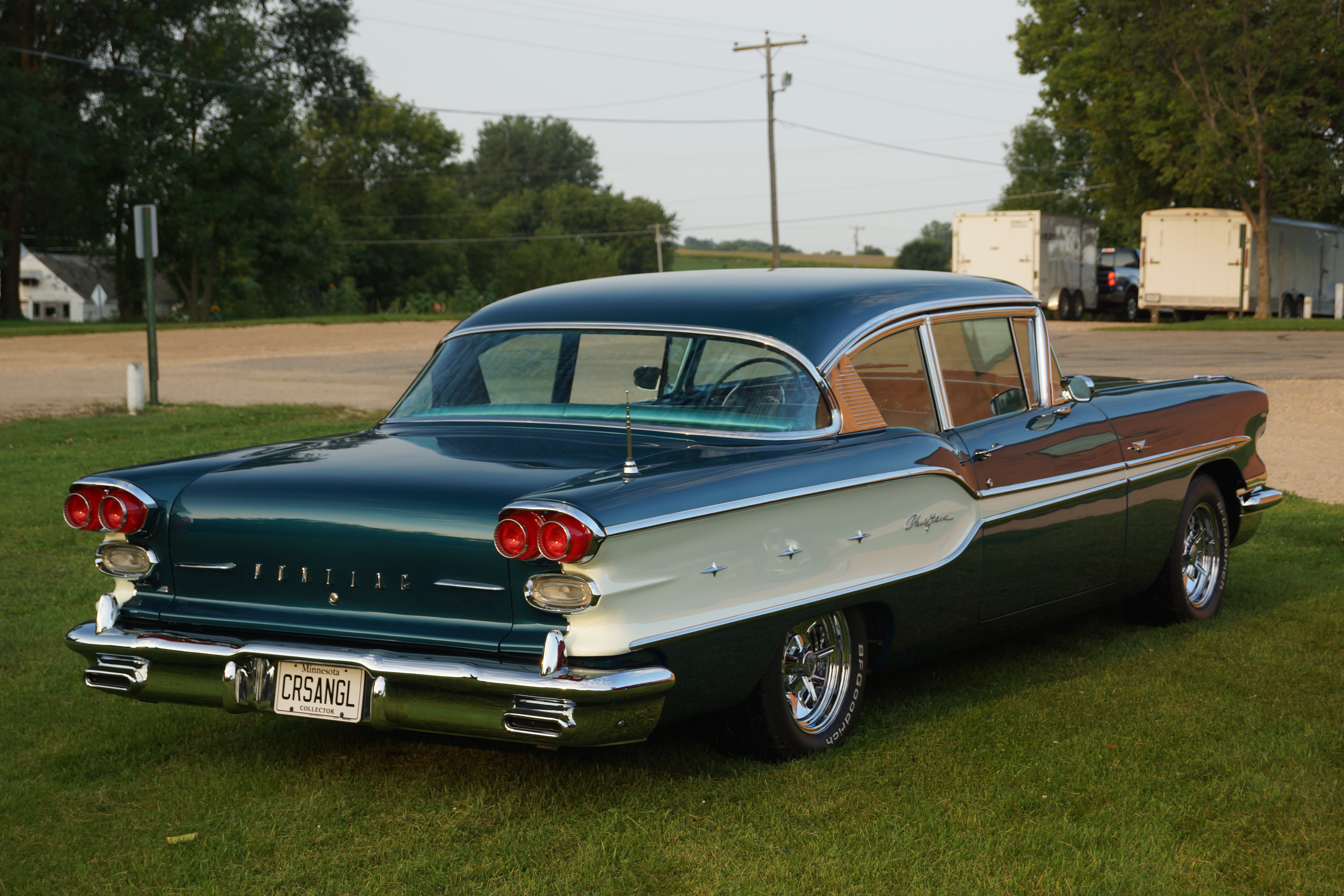 Sunburg Trolls 9th Annual Classic Car Show & Swap Sunburg Community Center Sunburg, Minnesota September 2017 Click here for more car pictures at my Flickr site. Or here for my Car Crazy Tumblr site. Or on Twitter @DVS1mn.